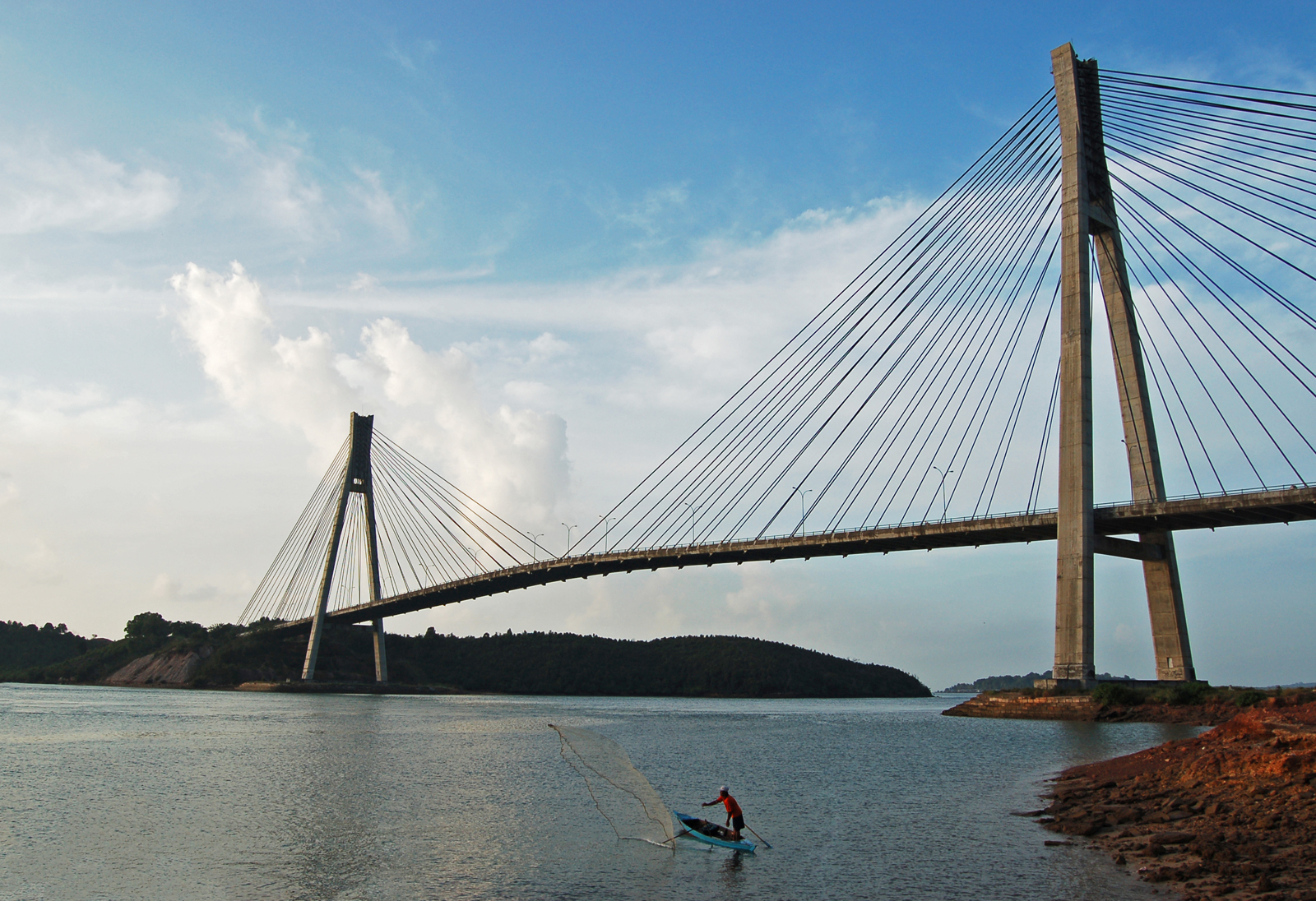 The Barelang Bridge is a chain of 6 bridges of various types that connect the islands of Batam, Rempang, and Galang, Indonesia.